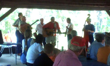 Travis Wammack entertains the crowd at the Labor Day Celebration for the Coon Dog Graveyard